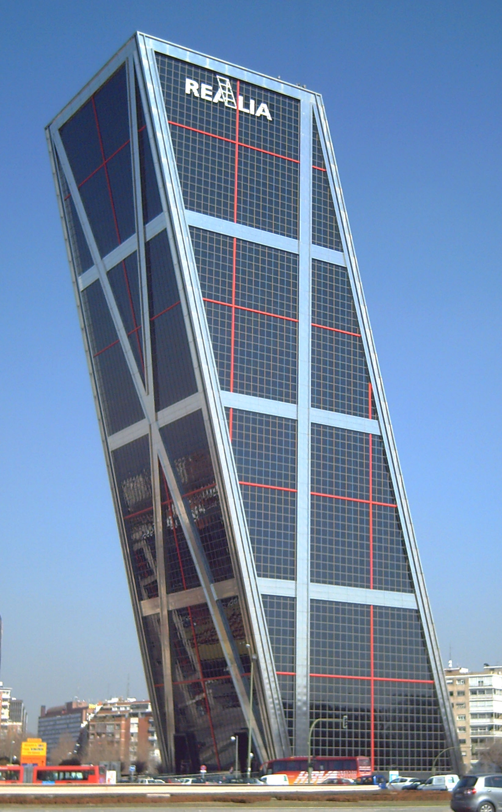 View of Puerta de Europa II (east building) in Madrid (Spain) from the south-west angle. Built in 1996. Architects: Philip Johnson and John Burgee.